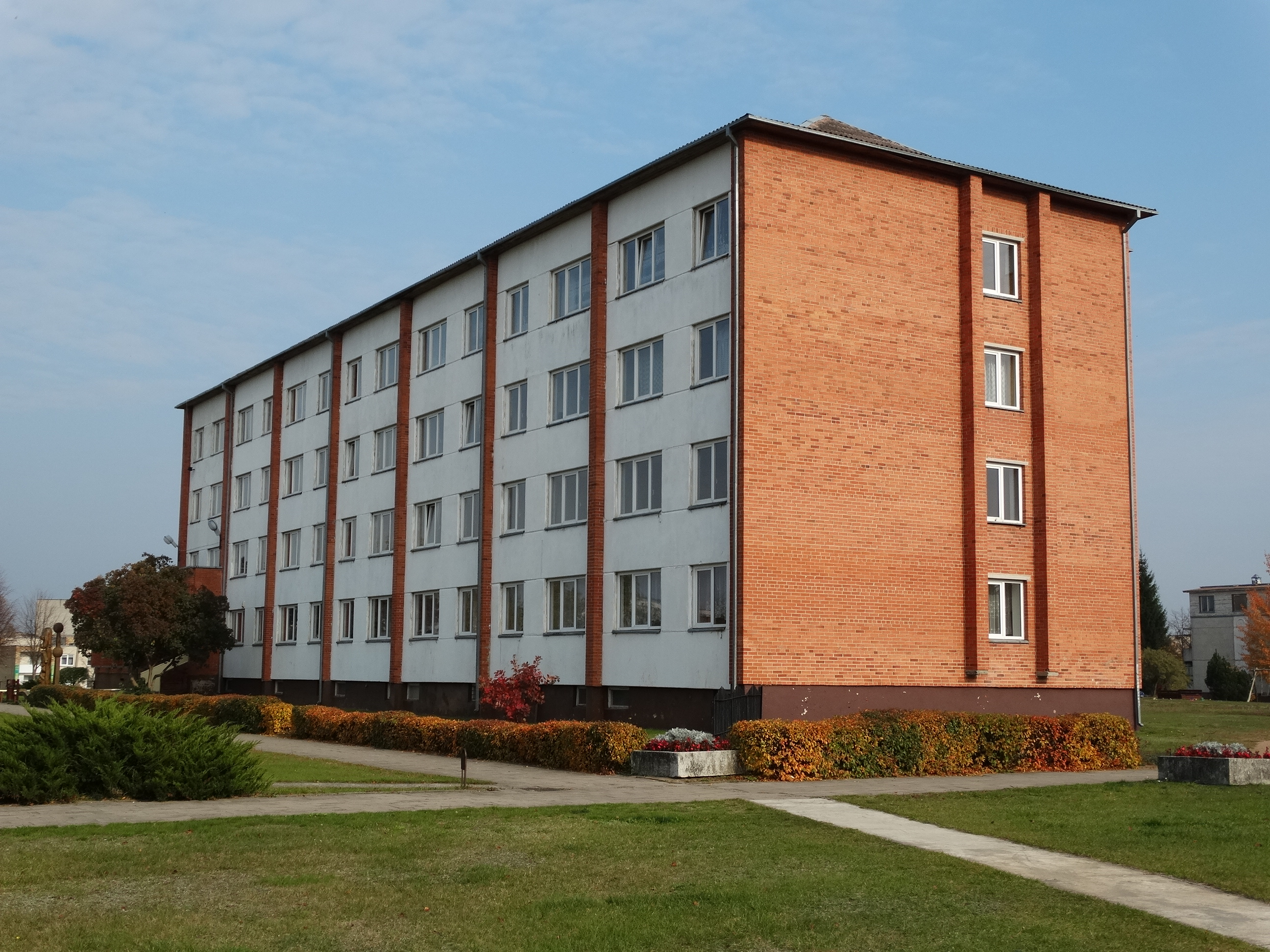 Technology School, Veisiejai, Lazdijai District, Lithuania